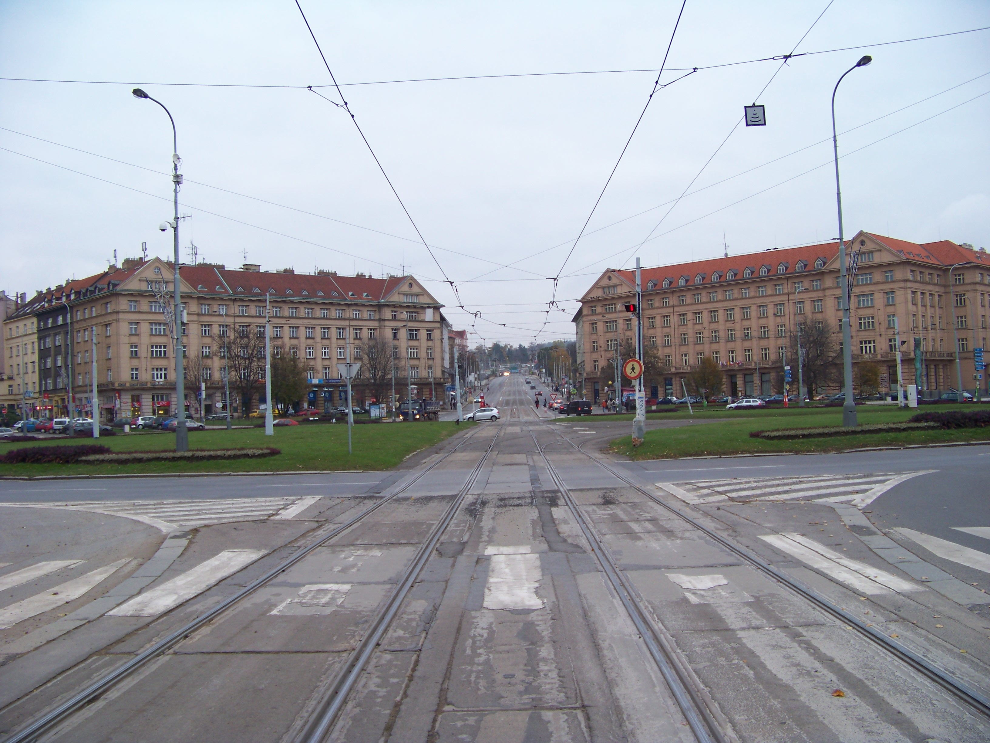 Dejvice and Bubeneč, Prague, the Czech Republic. Vítězné Square.